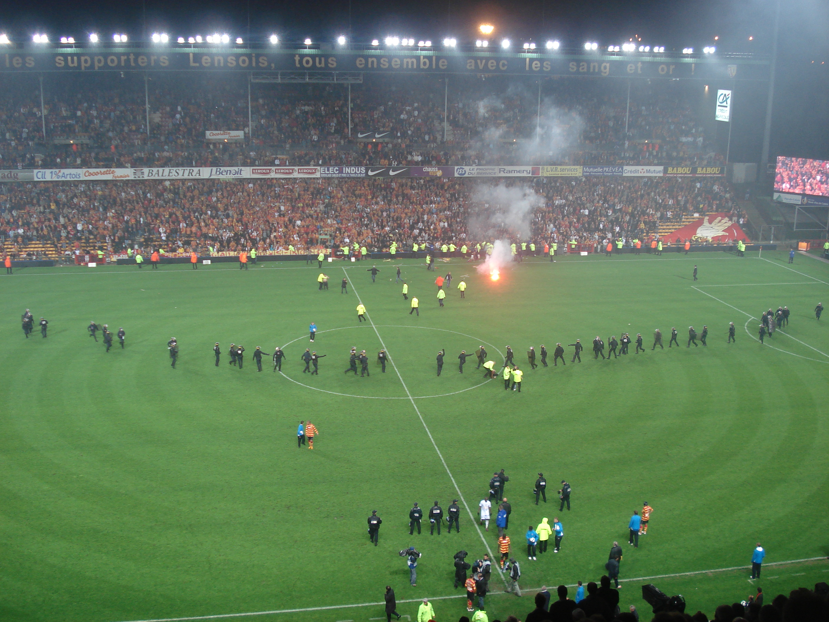 Lens Bordeaux 2008 (descente en Ligue 2)